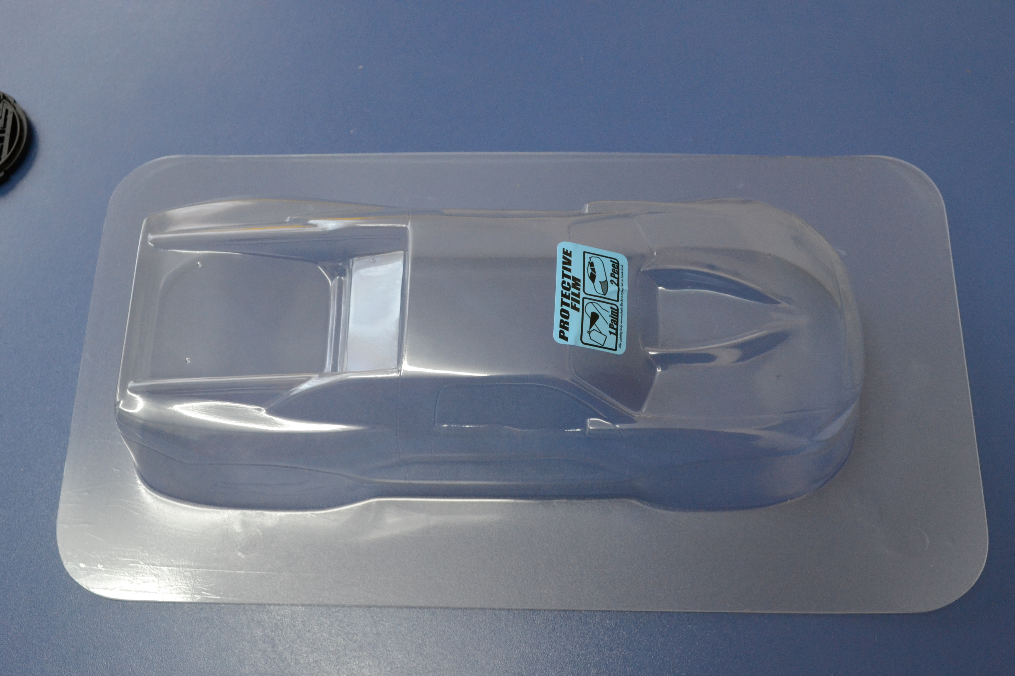 Body for traxxas. This is used like a cover to a car. Teh photo show it before painting and cutting. The material is called "Lexan"